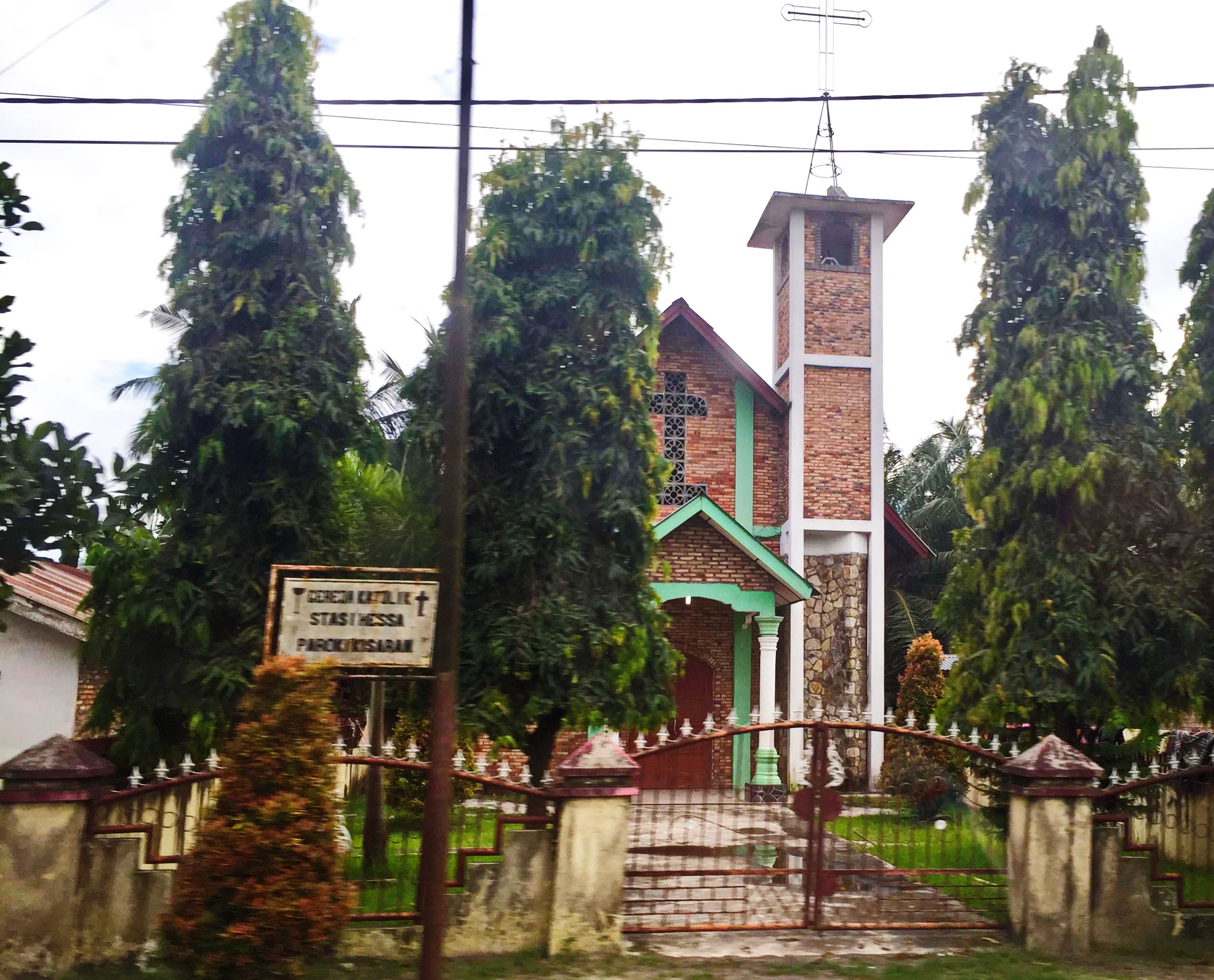 Catholic Church of Hessa Church in Hessa Air Genting, Air Batu, Asahan